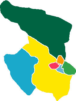 Subdivision of Xining